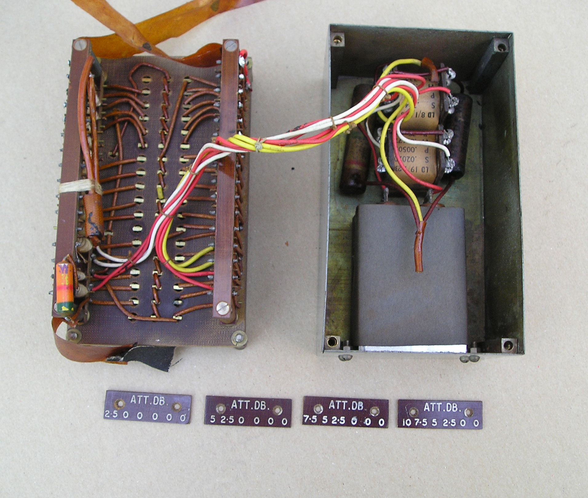 Internal components of a temperature correcting equaliser for an audio landline.